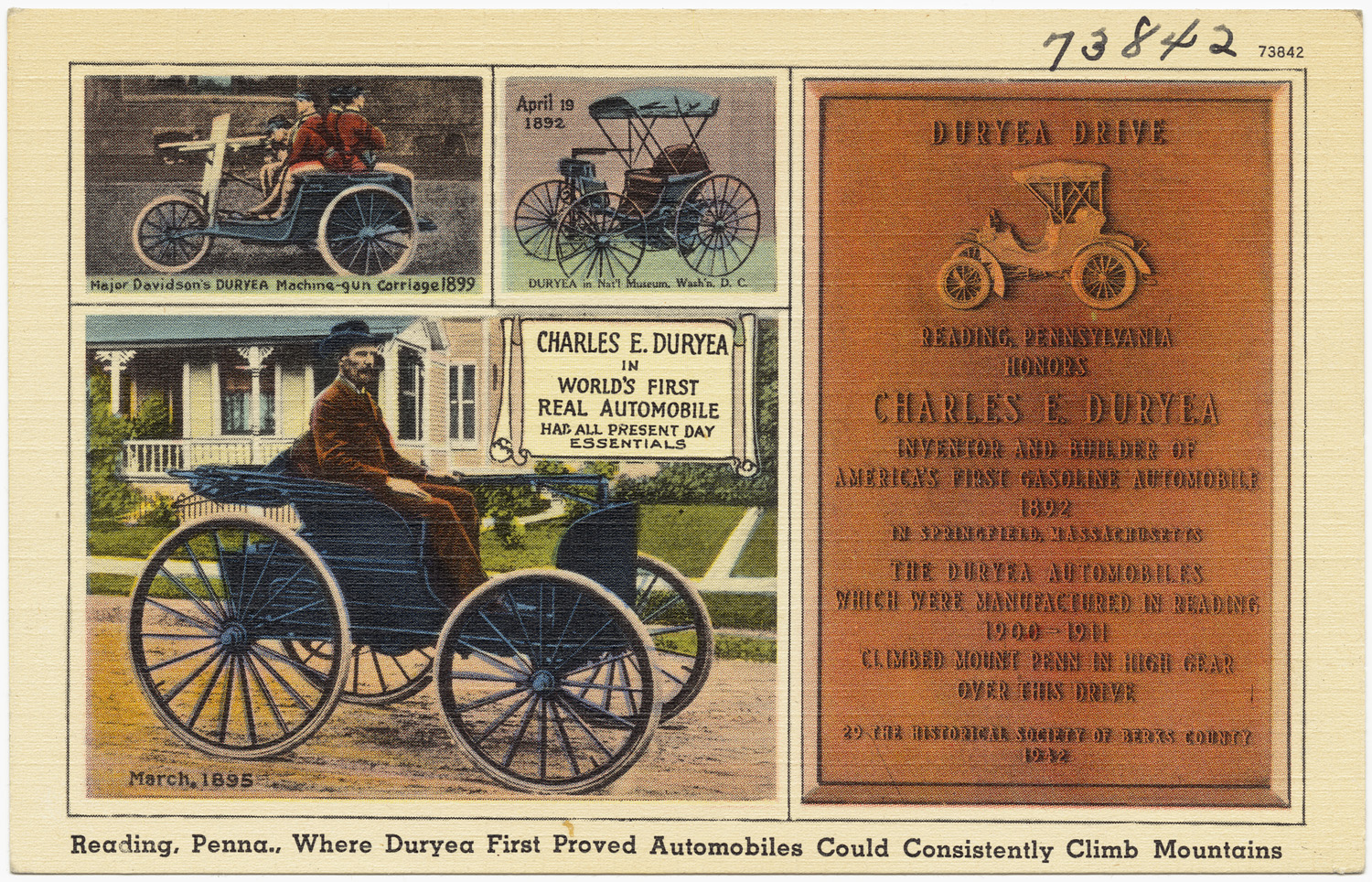 File name: 06_10_018222 Title: Reading, Penna., where Duryea first proved automobiles could consistently climb mountains Created/Published: Pub. by Berkshire News Company Date issued: 1930 - 1945 (approximate) Physical description: 1 print (postcard) : linen texture, color ; 3 1/2 x 5 1/2 in. Genre: Postcards Subjects: Notes: Collection: The Tichnor Brothers Collection Location: Boston Public Library, Print Department Rights: No known restrictions